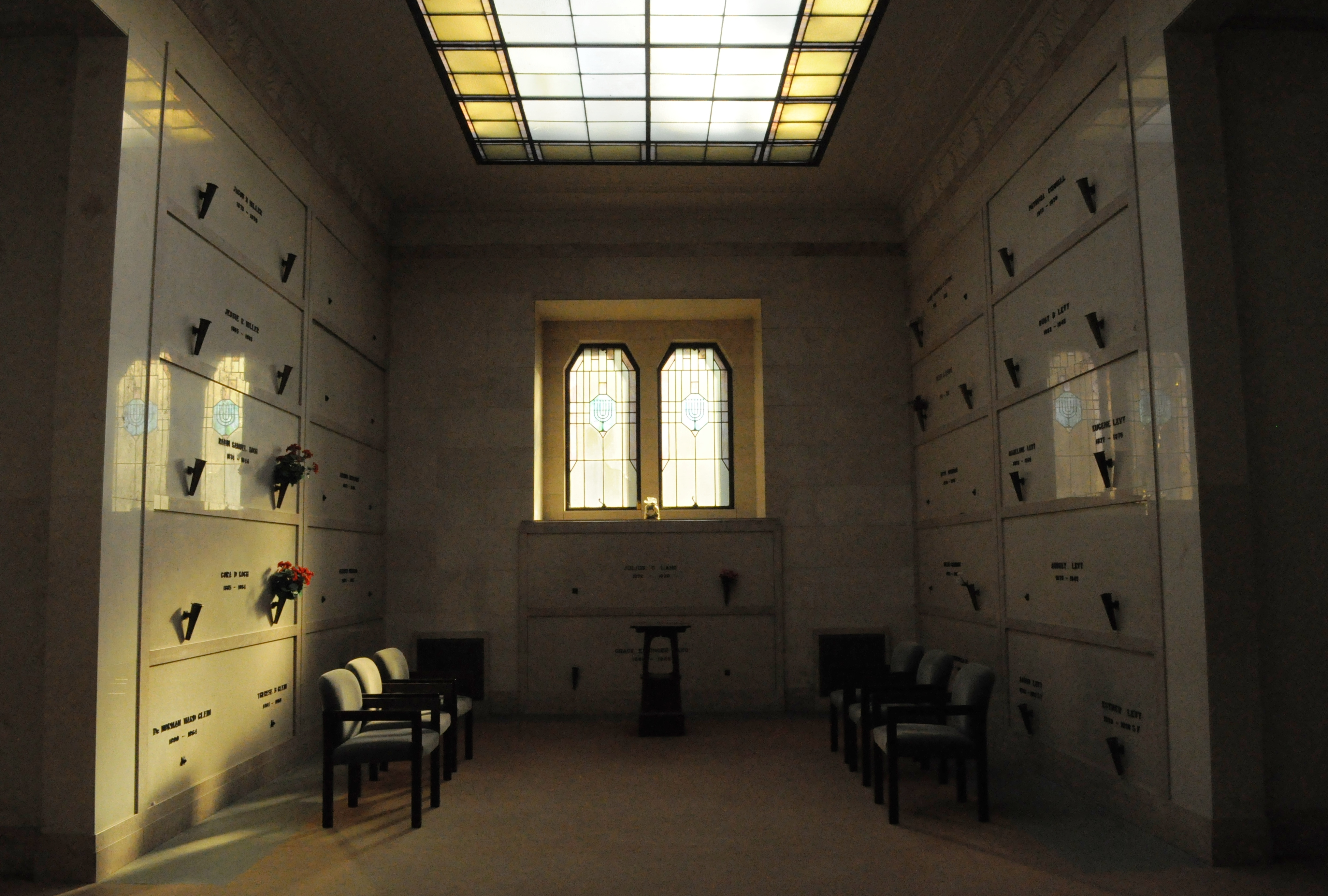 Interior, Home of Peace Mausoleum. The mausoleum is associated with the (Reform Jewish) Temple De Hirsch Sinai and is adjacent to the congregation's Hills of Eternity Cemetery. Both fall within the boundaries of Mt. Pleasant Cemetery, Queen Anne Hill, Seattle, Washington.